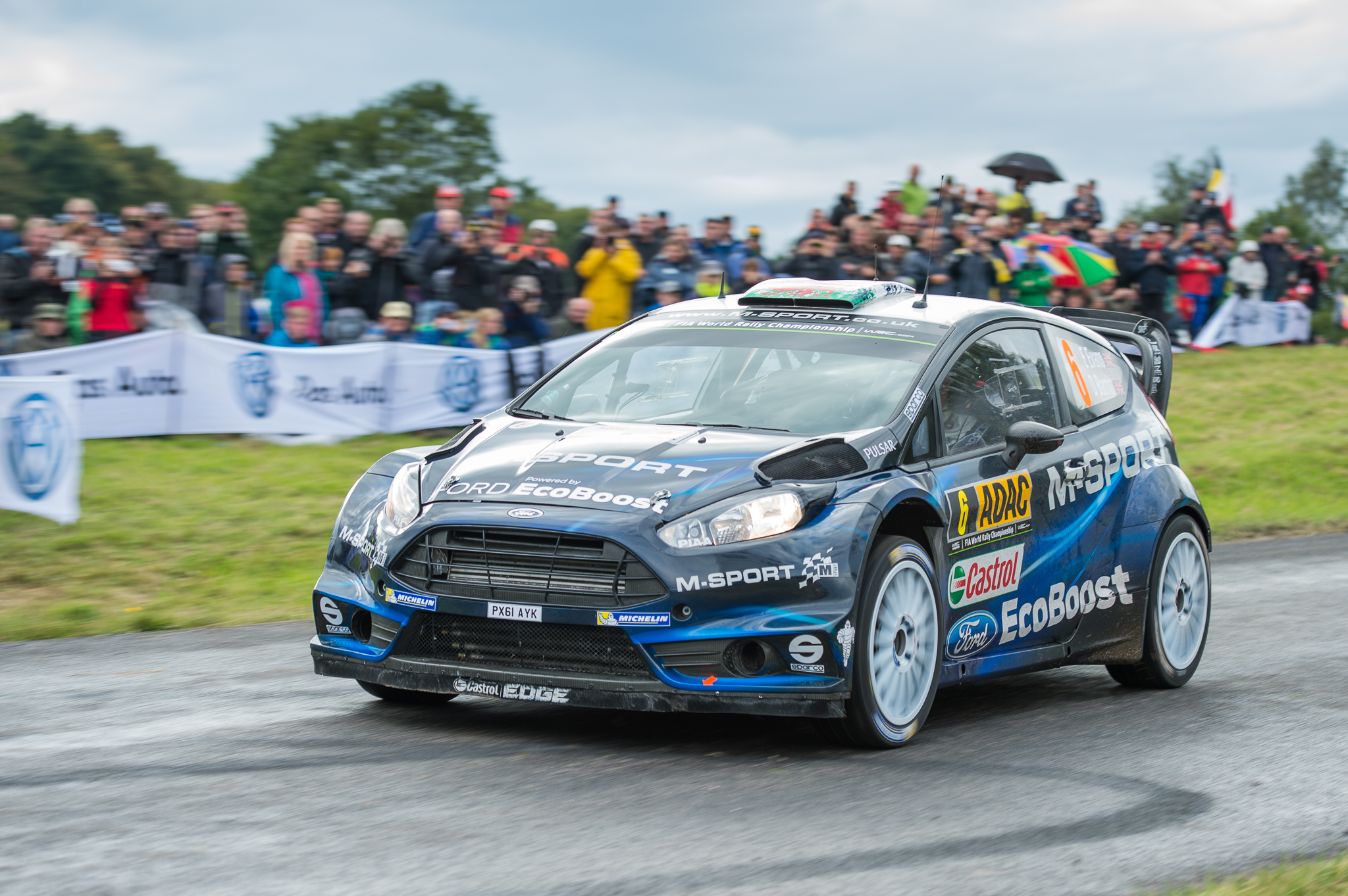 ADAC Rallye Deutschland 2014,Daniel Barritt,Elfyn Evans,FIA,FIA World Rally Championship,Ford Fiesta RS WRC,M-Sport WRT,M-Sport World Rally Team,Motorsport,Panzerplatte,Rally,Rallye,SS14,WP14,WRC